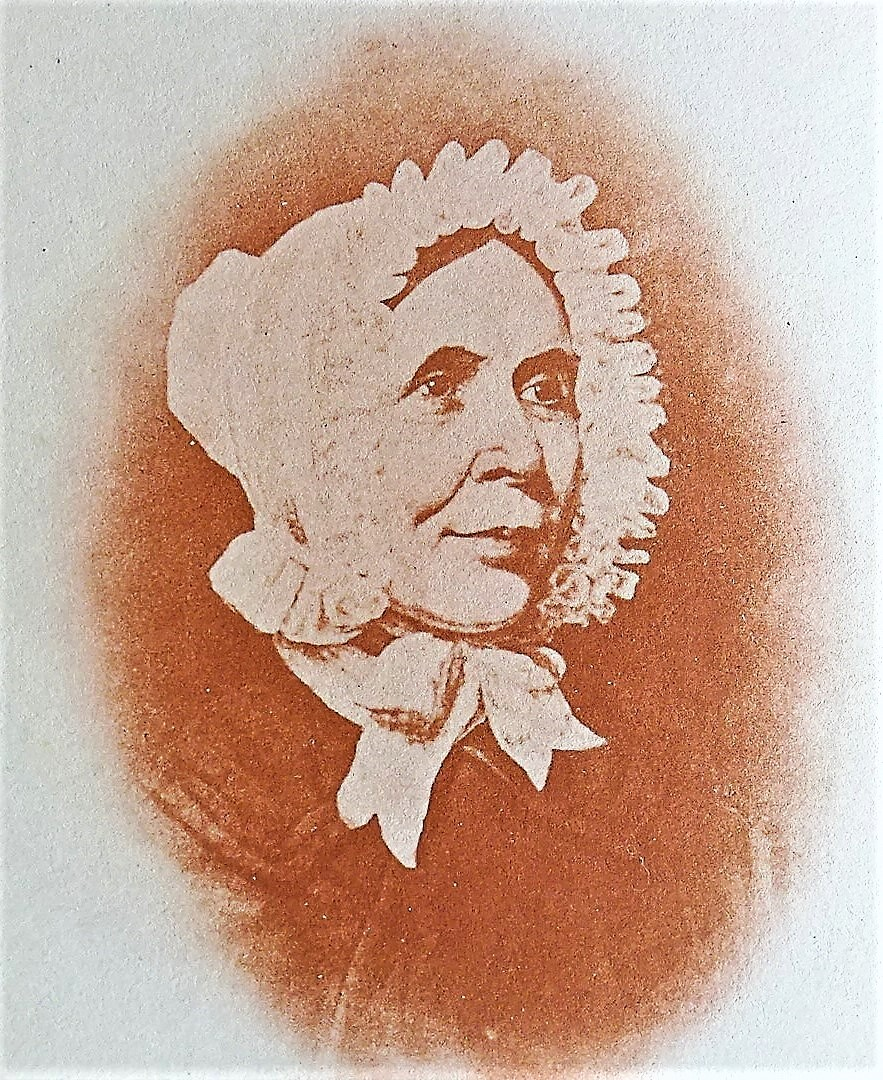 Photograph of a painting of Isabella Begg nee Burns by William Taylor at the age of 77 in circa 1844. She was the youngest sister of Robert Burns.